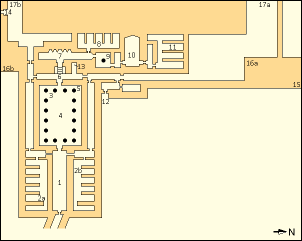 A depiction of the layout of Nyuserre's mortuary temple. In order: (1) Long entrance hall with (2a and b) five storage rooms to the north and south of the hall; (3) Courtyard with sixteen columns with a (4) sandstone basin for collecting rainwater and (5) an altar; (6) Transverse corridor set on a north-south axis; (7) The chapel with (8) a set of storage rooms; (9) The antichamber carrée with central column; (10) The offering hall with (11) a final set of storage rooms; (12) The alternate entrance; (13) Approximate location of the pink granite lion statue; (14) Corridor leading to the cult pyramid and; (15) Approximate location of the square platform. Based on Verner, Miroslav (2001) The Pyramids: The Mystery, Culture and Science of Egypt's Great Monuments, New York: Grove Press, pp. 291-297